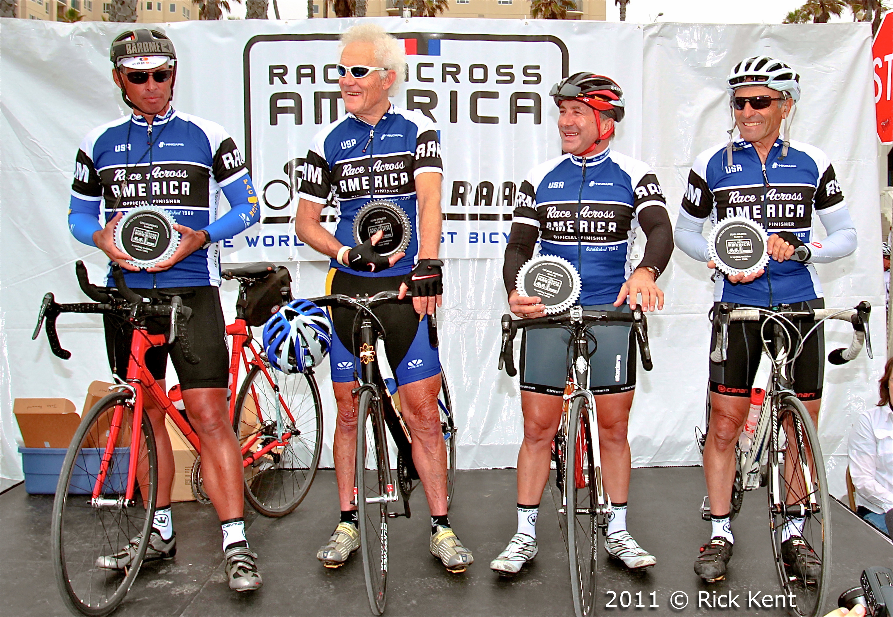 Prior to the start of the solo division of the 2011 Race Across America the original four competitors from 1982 were recognized and given special awards. From left to right: Lon Haldeman, John Howard, Michael Shermer, and founder John Marino.